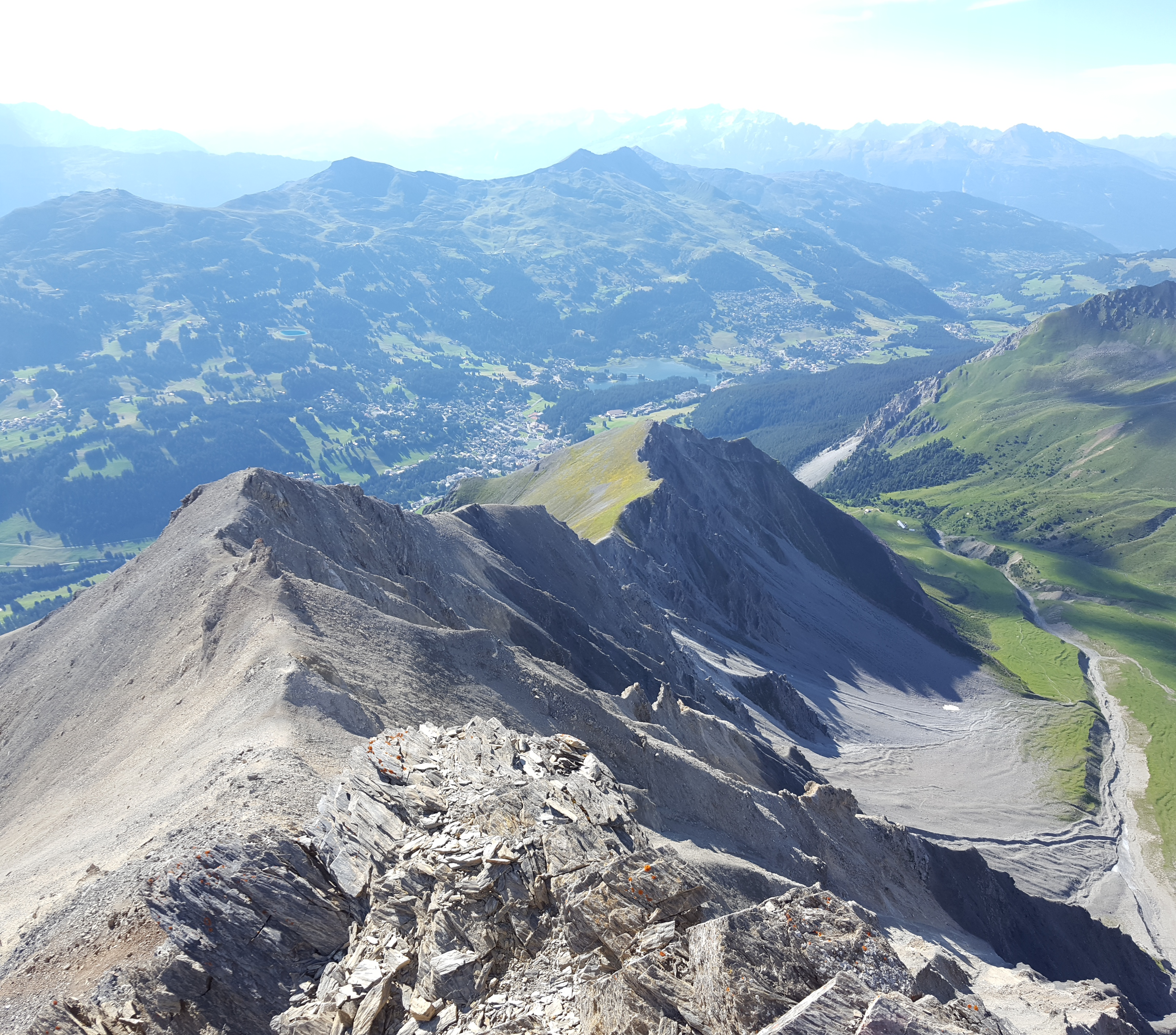 Northwest ridge of Lenzer Horn (Lantsch/Lenz, Grison, Switzerland